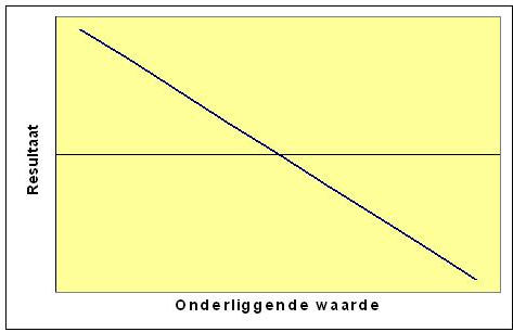 conversion, option construction, finance